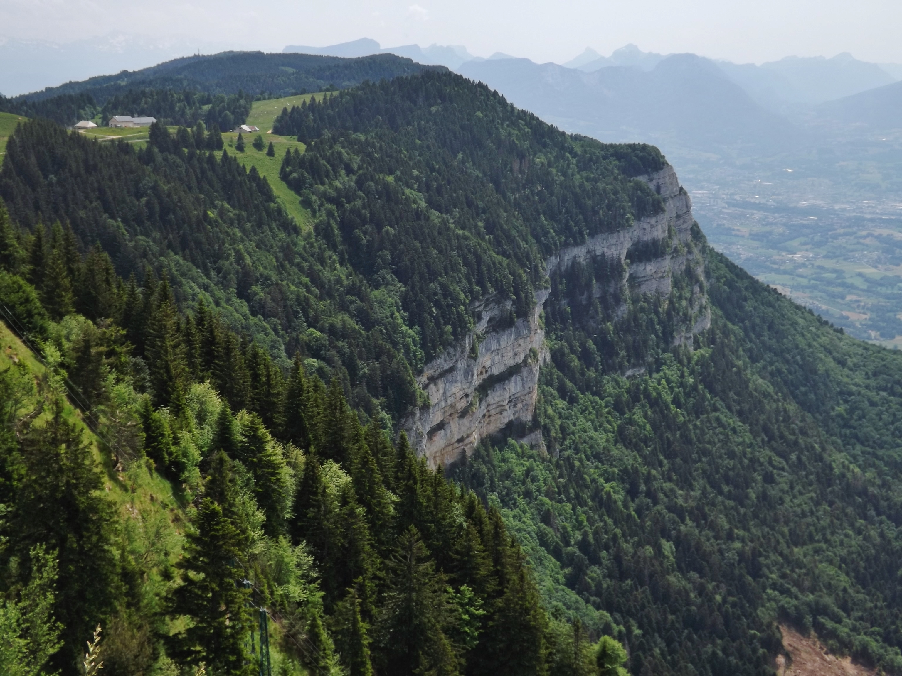 Sight of the Mont Revard cliffs, in the Bauges mountains (Alps), in the direction of Chambéry, partly visible on the upper right corner, in Savoie, France.